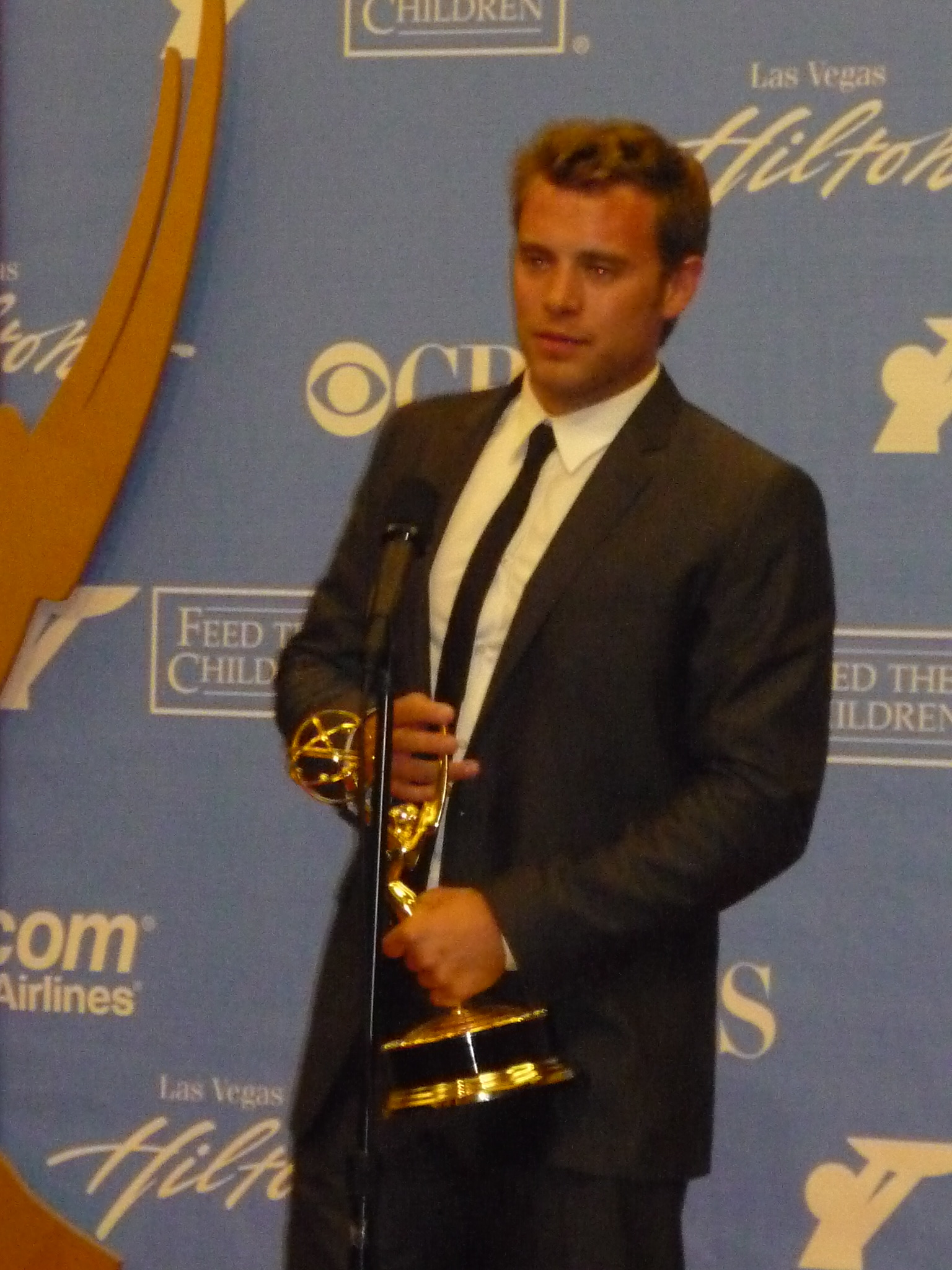 Actor Billy Miller at 2010 Daytime Emmy Awards